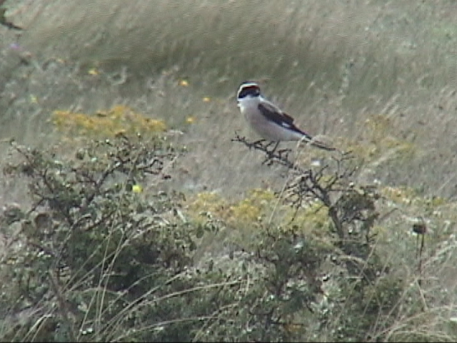 lesser Grey Shrike, Lanius minor, Kaliakra region, Bulgaria, July 2006, photo Ivan Petrov